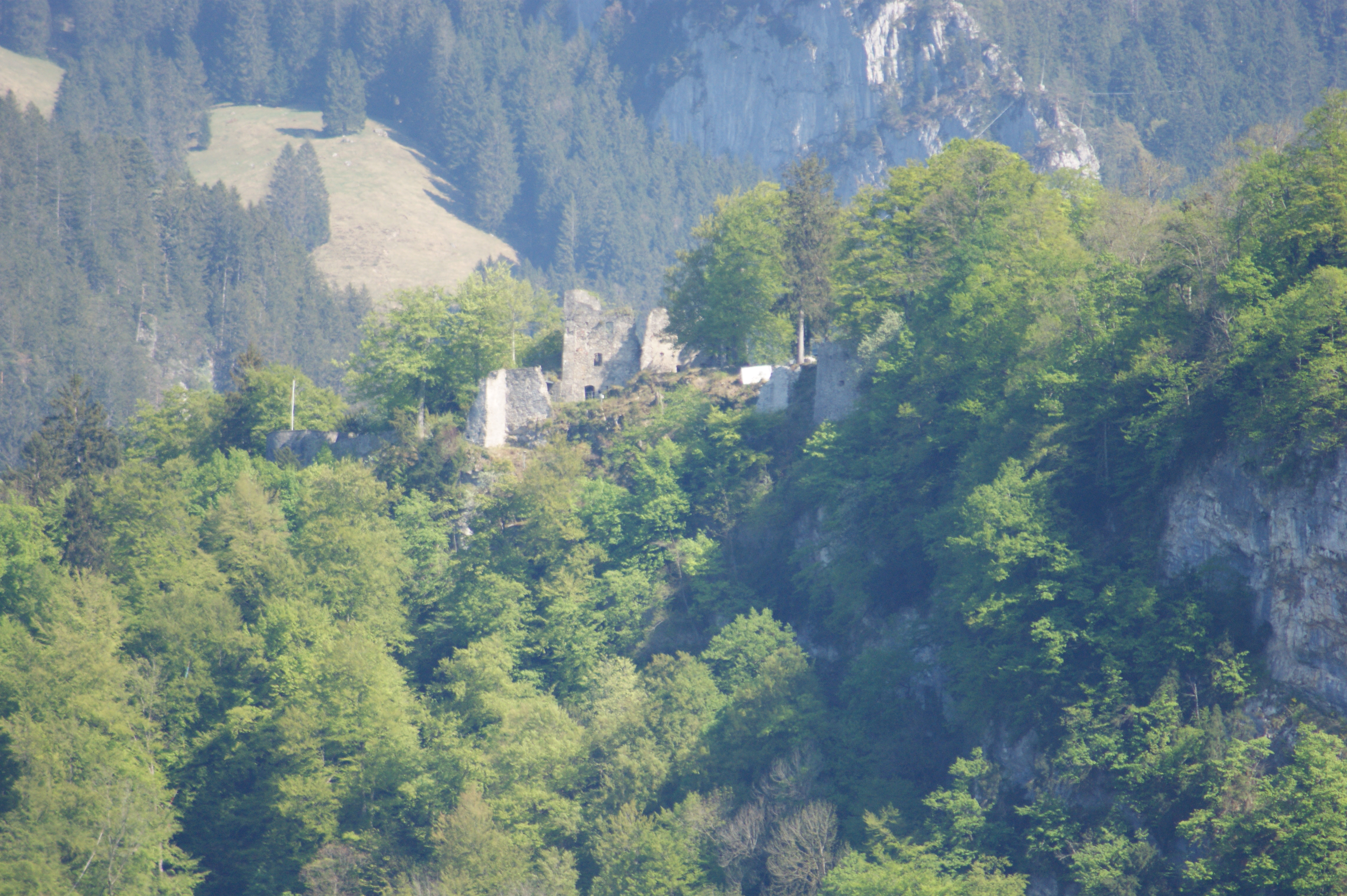 Castle ruin Alt-Ems on the Schlossberg in Hohenems, Vorarlberg, Austria. Built around 1100.